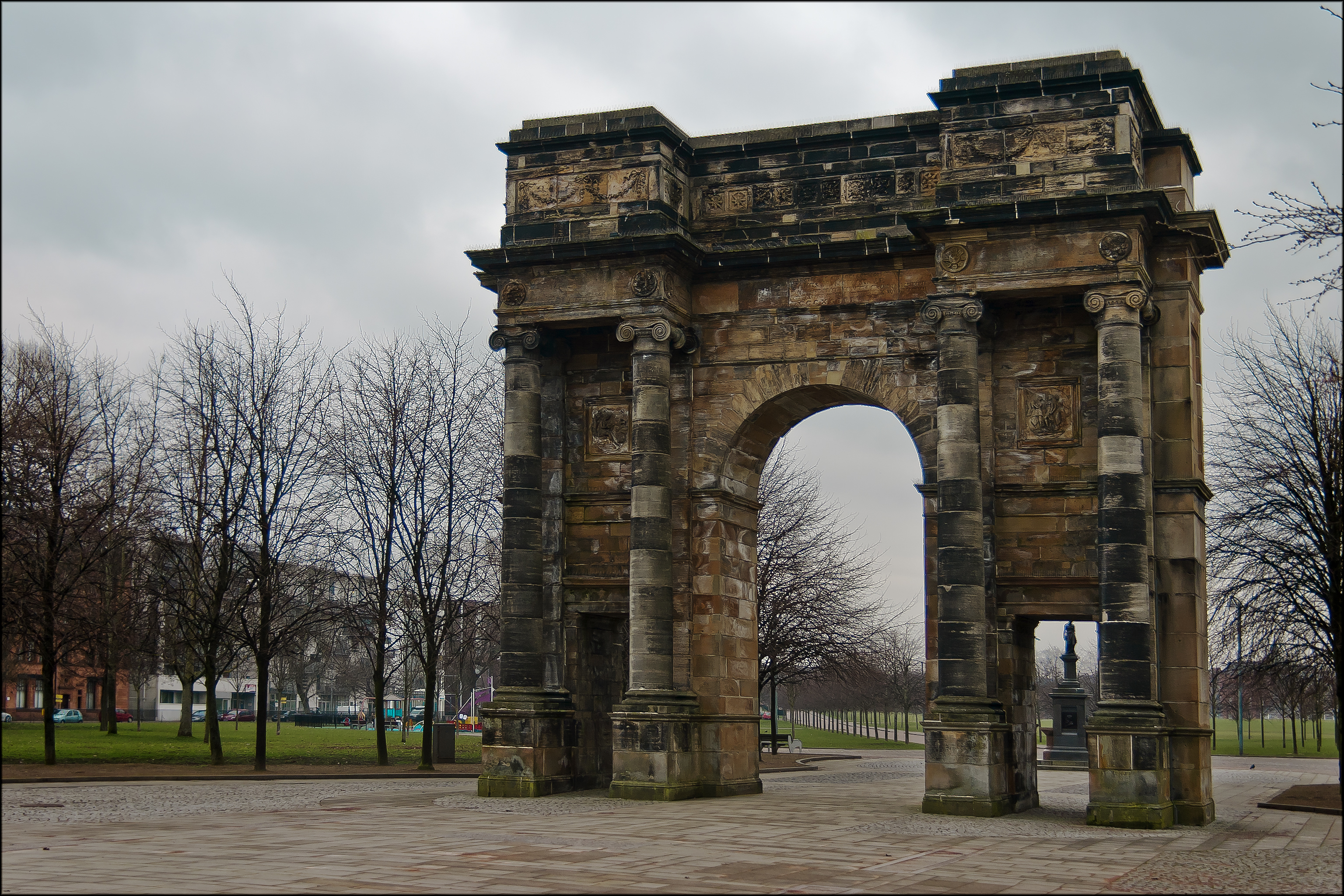 Glasgow